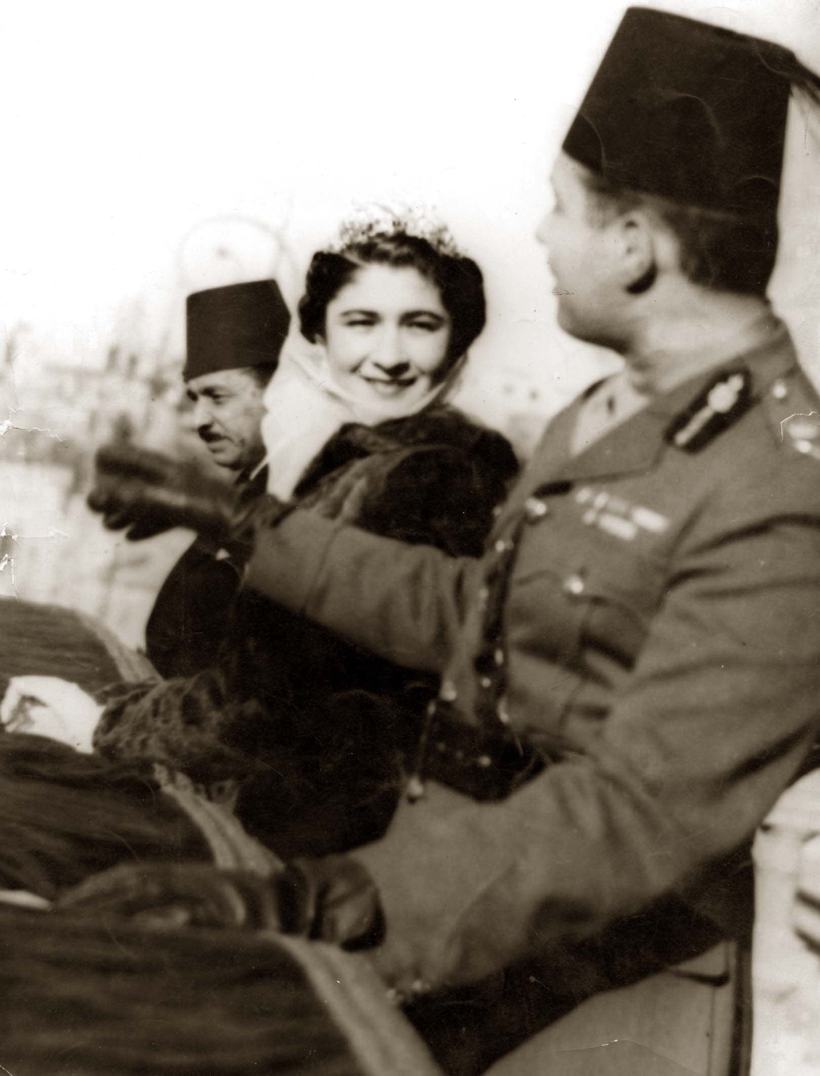 King Farouk I of Egypt in military uniform standing next to hiw wife Queen Farida and Prime Minister Ali Maher Pasha to watch the show held by the Girl Guides in Abdeen Square.